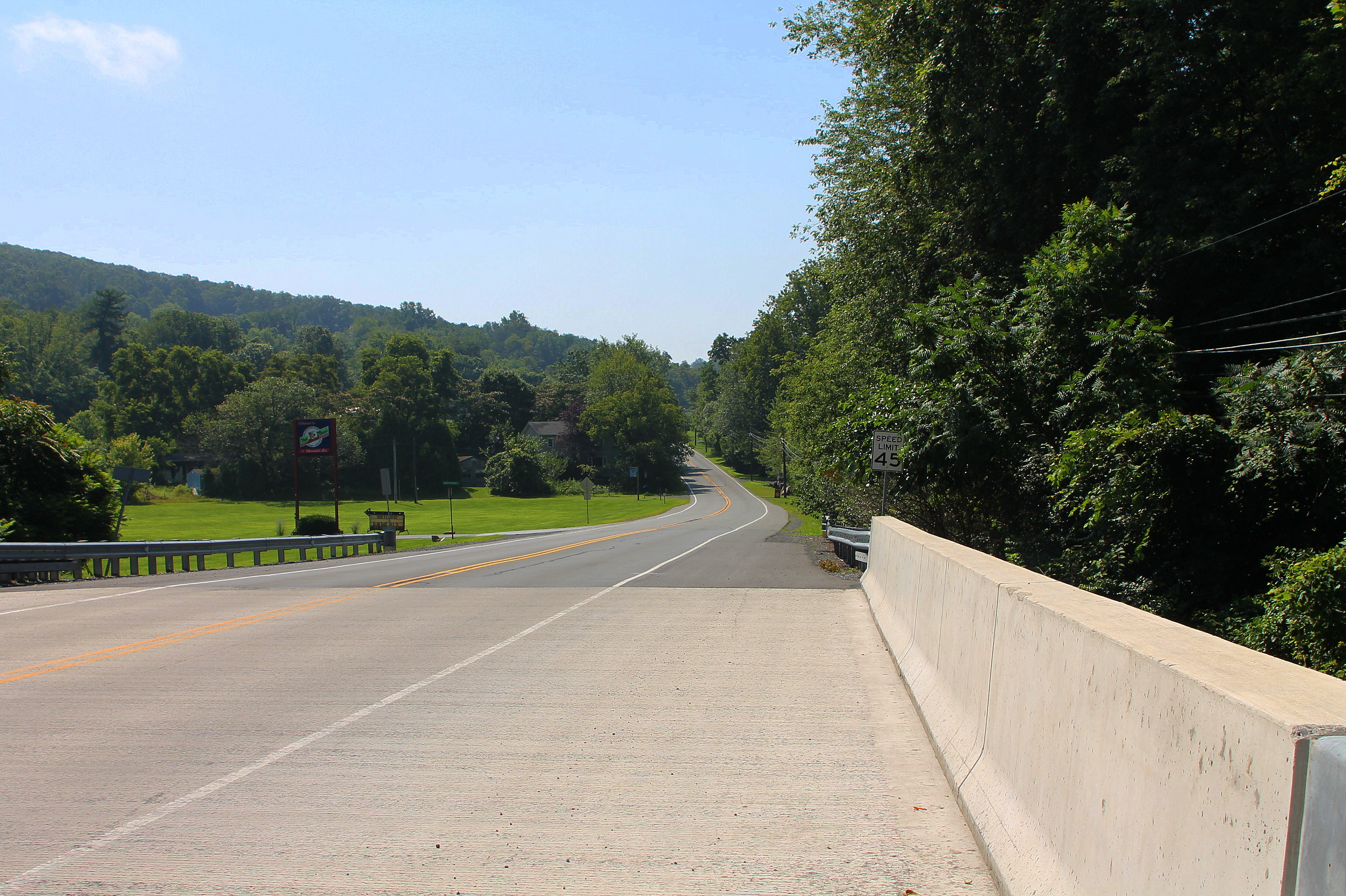 Pennsylvania Route 405 south in West Chillisquaque Township, Northumberland County